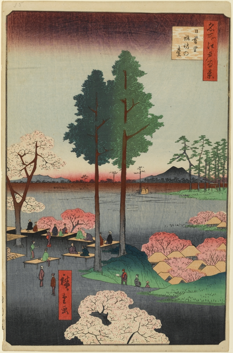 Part of the series One Hundred Famous Views of Edo, no. 015, part 1: Spring.